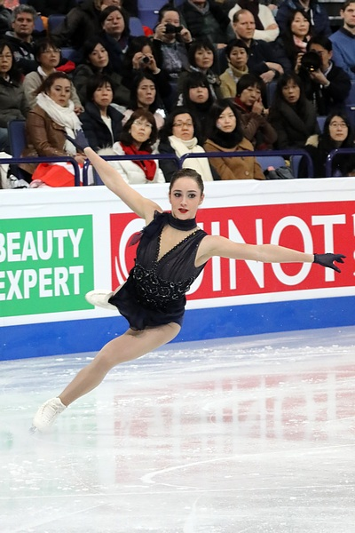 Kaetlyn Osmond skates her short program at the 2017 World Championships in Helsinki, Finland